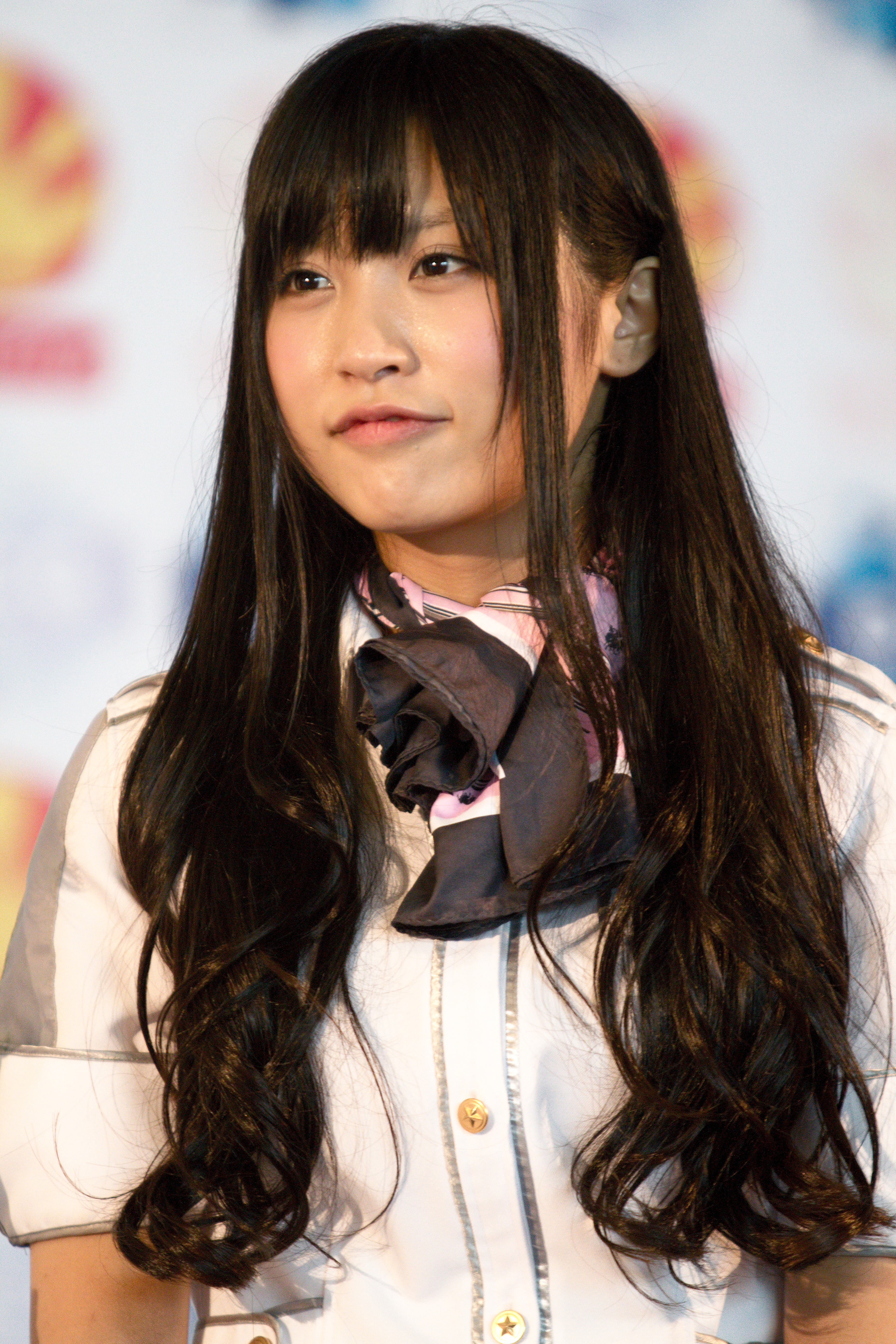 Questions and answers session with PASSPO ☆, followed by few songs live at Japan Expo 2011 (Paris, France).